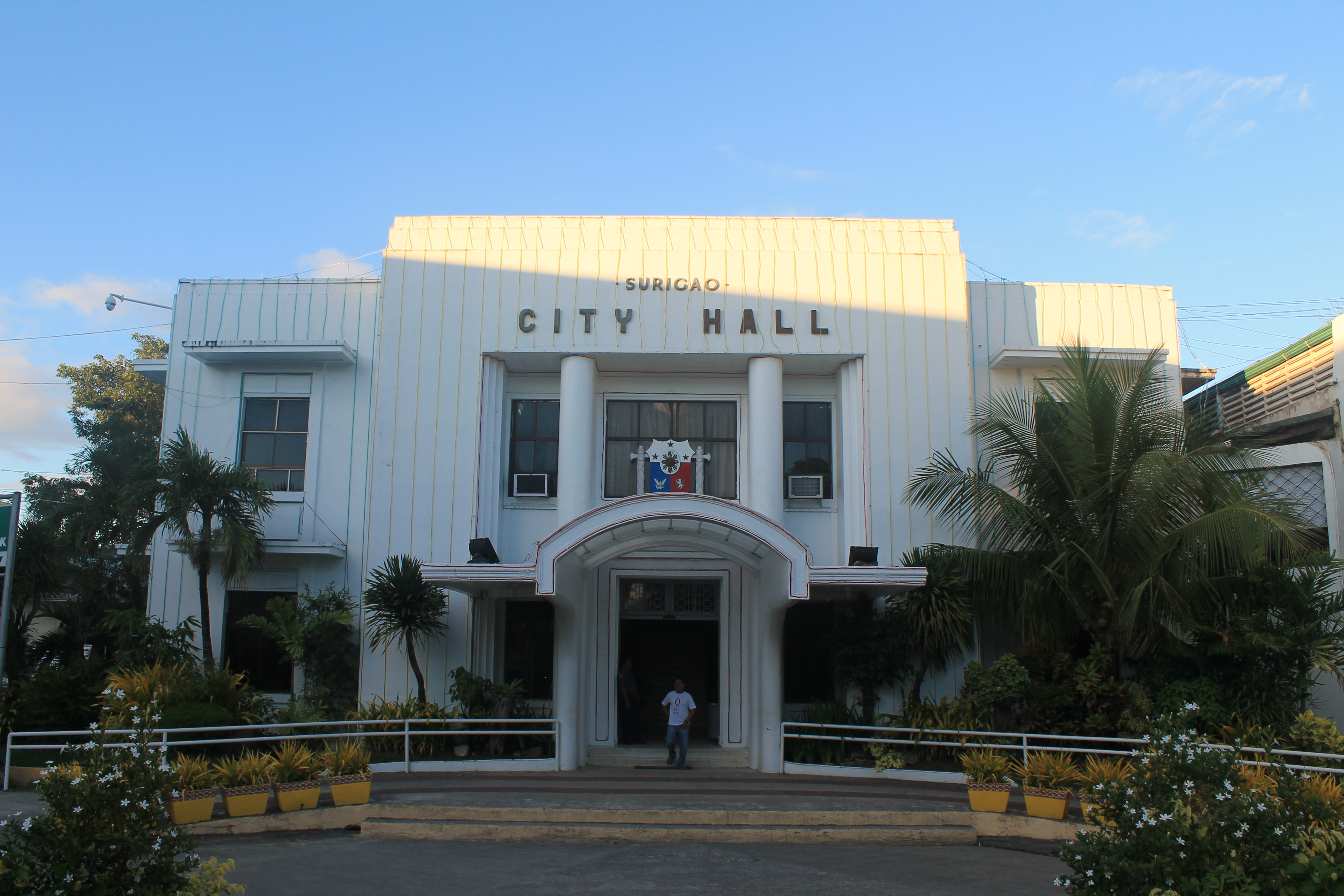 Surigao City Hall in Surigao City in Surigao del Norte, PhilippinesTagalog: Bulwagan ng Lungsod ng Surigao sa Surigao del Norte, Pilipinas